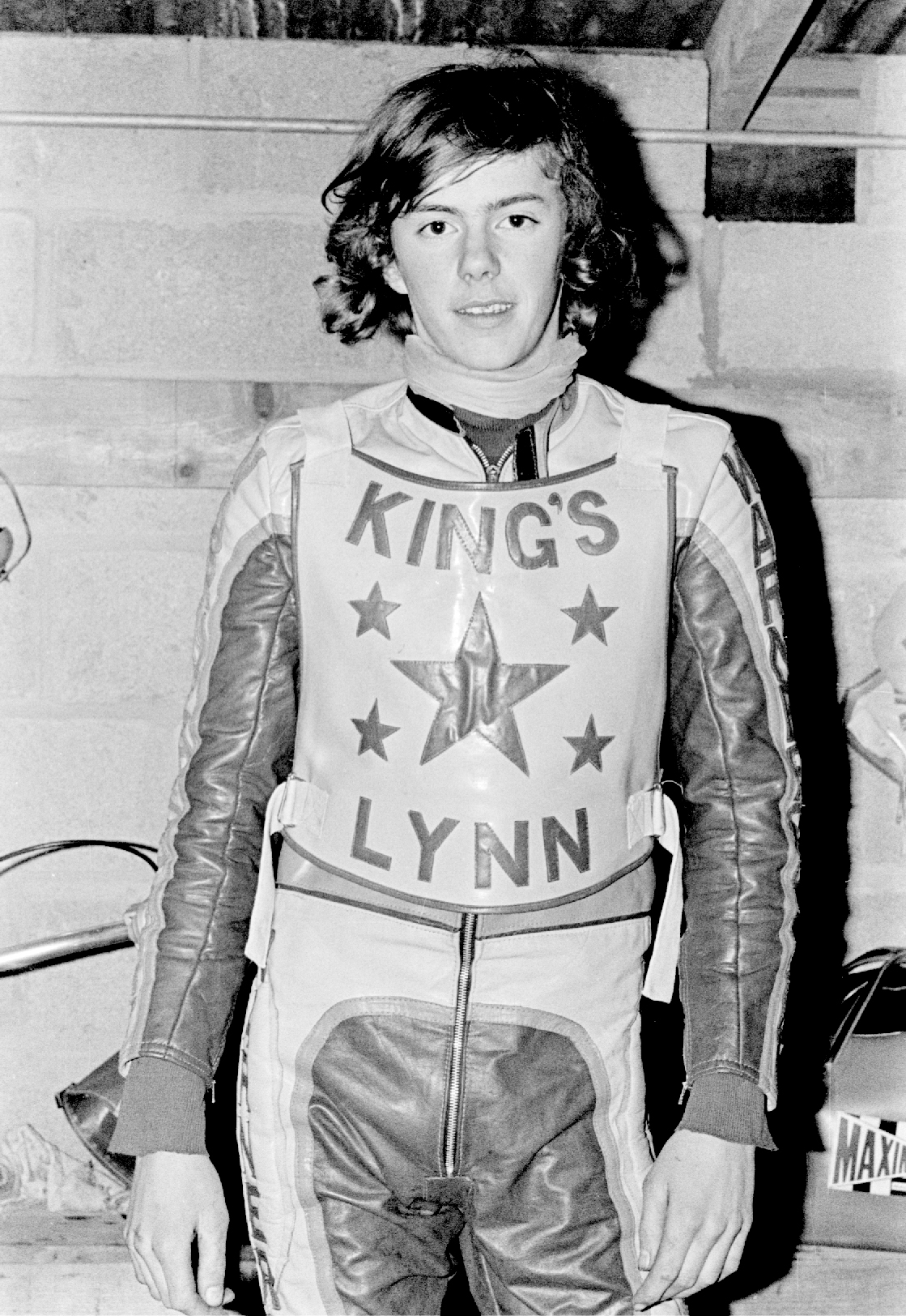 Speedway World Champion, British Champion, and rider for Kings Lynn